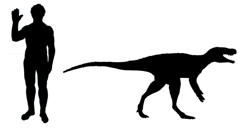 Size comparison between a 1.8 meter tall Homo sapiens sapiens and a 2.2 meter long Chindesaurus bryansmalli.